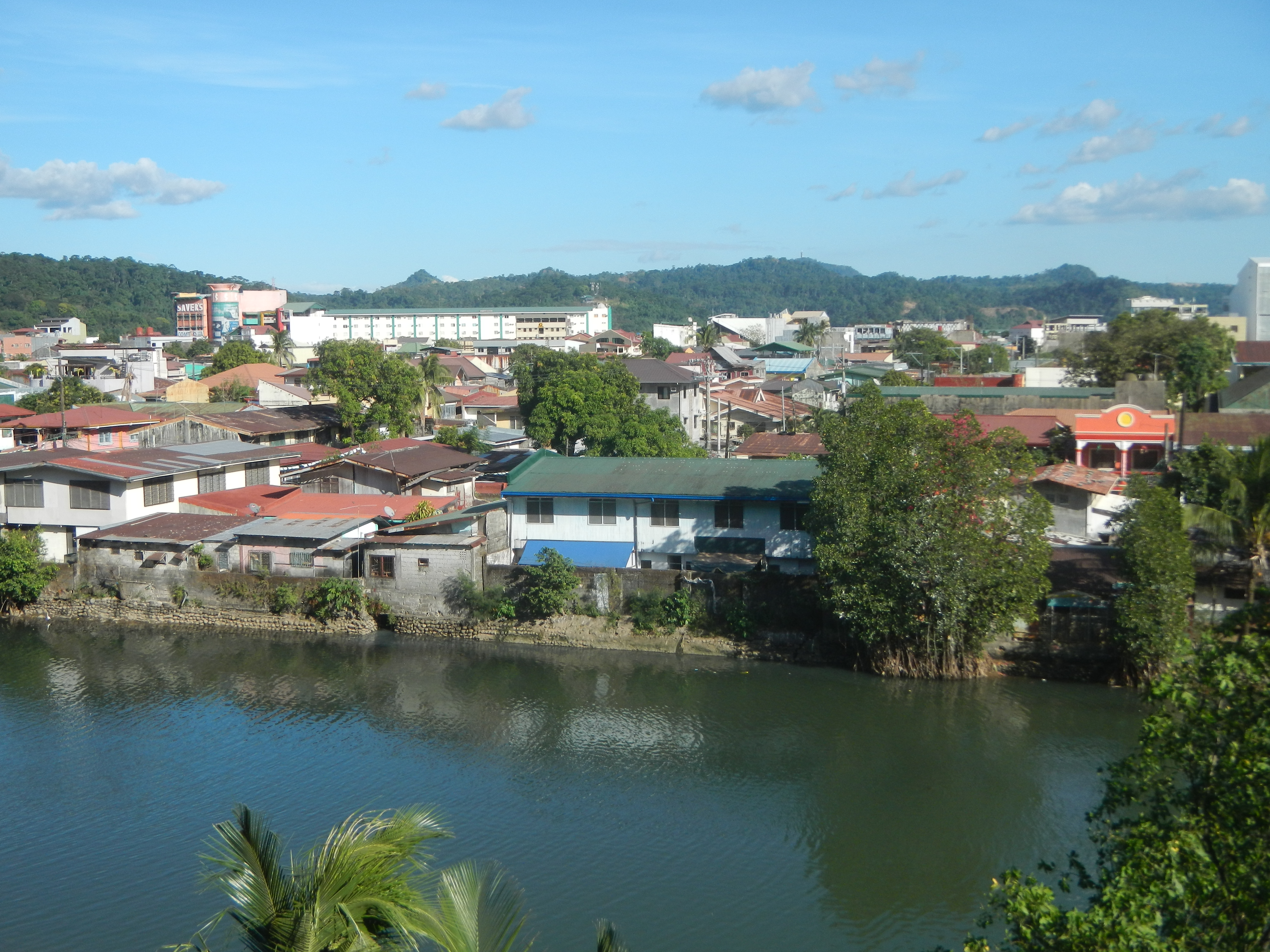 Holy Family Parish Church (Lower Kalaklan, Olongapo City) May 5, 1985 Groundbreaking May 12, 2002 as Parish September 21, 2002 Dedication and Consecration Roman Catholic Diocese of Iba Views of Banicain, New Kalalake & West Tapinac, Olongapo City from observation windows of the Holy Family Parish Church (Lower Kalaklan, Olongapo City) Kalaklan, Olongapo City Barangay Kalaklan, Olongapo City 14°49'48"N 120°16'26"E Olongapo City Kalaklan River from and along Jose Abad Santos Avenue or Olongapo–Gapan Road Philippine highway network (Note: Judge Florentino Floro, the owner, to repeat, Donor Florentino Floro of all these photos hereby donate gratuitously, freely and unconditionally Judge Floro all these photos to and for Wikimedia Commons, exclusively, for public use of the public domain, and again without any condition whatsoever).